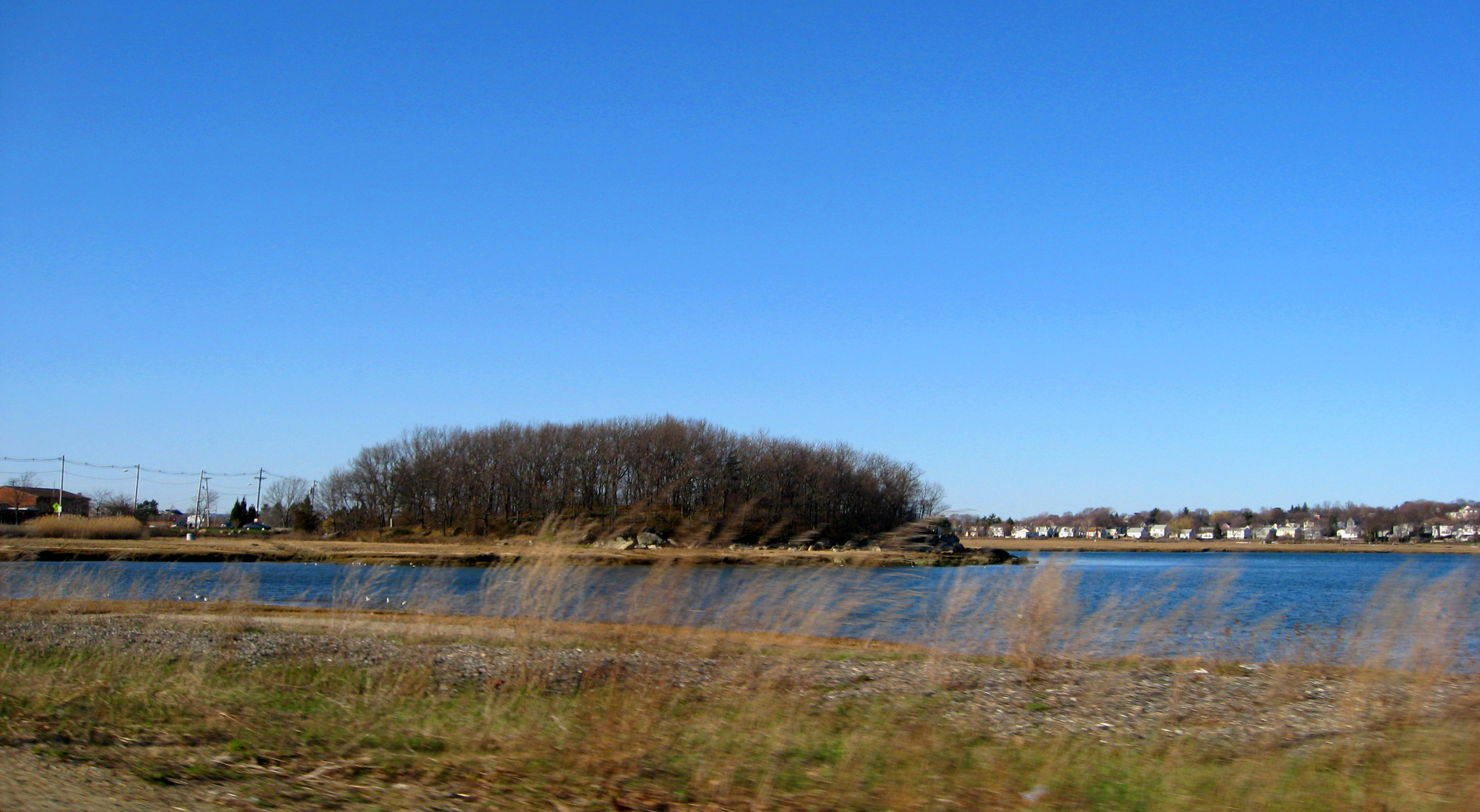 Moswetuset Hummock as seen from Quincy Shore Drive in April 2009